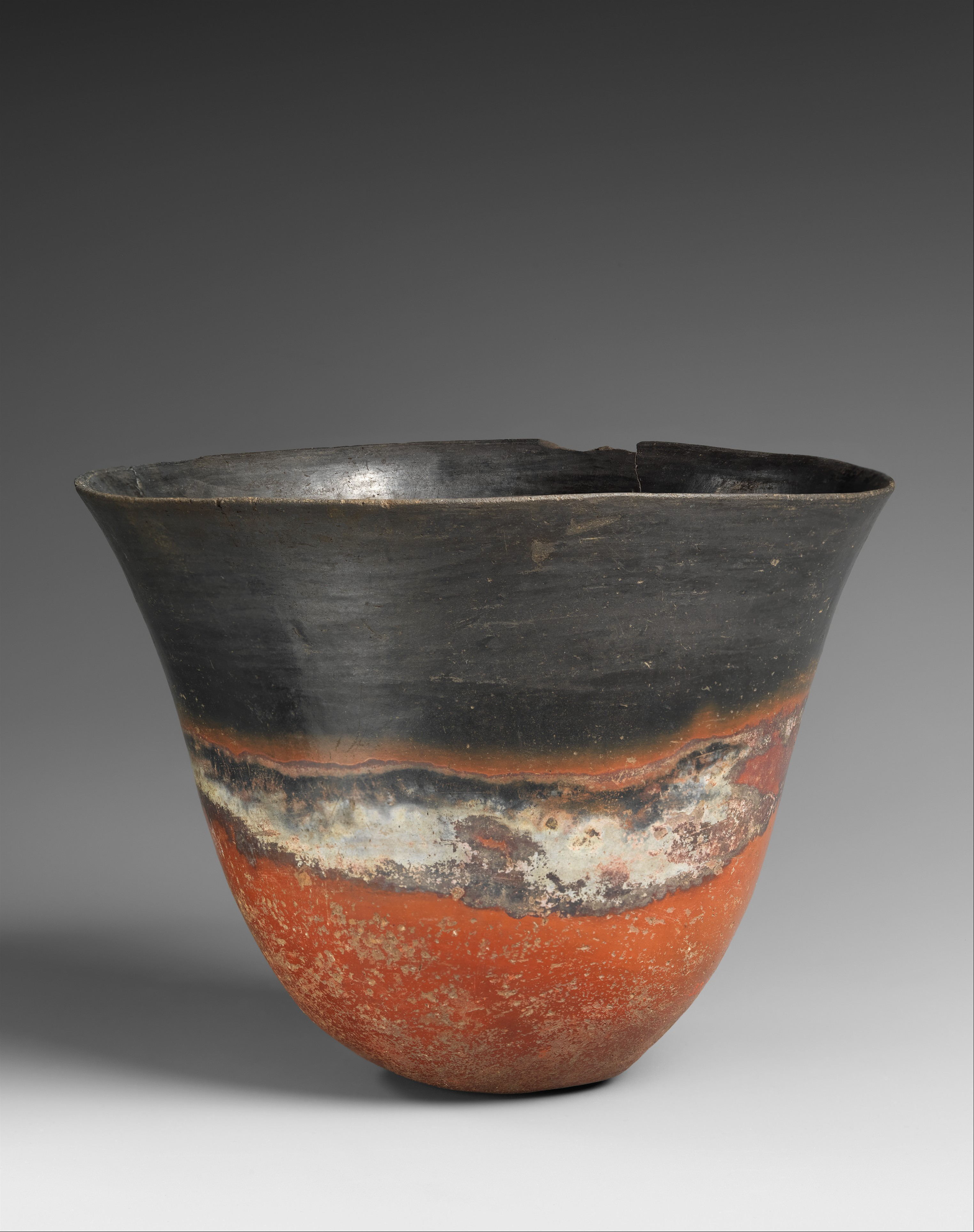 Beaker, classic Kerma